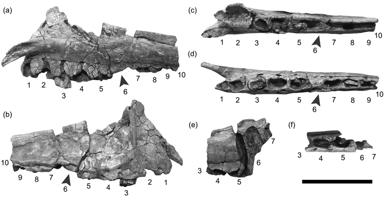 Palaeopathological characters of the right maxilla of ZLJT01 (Sinosaurus triassicus), in (a) medial; (b) lateral; (c) dorsal; (d) ventral views. Position of the abnormal alveolus mx6 is indicated by an arrowhead. Incomplete, normal left maxilla of ZLJT01 in (e) medial and (f) ventral aspects showing non-pathological alveolus mx6. Numerals in (a)–(f) refer to alveoli. Scale bar = 10 cm.